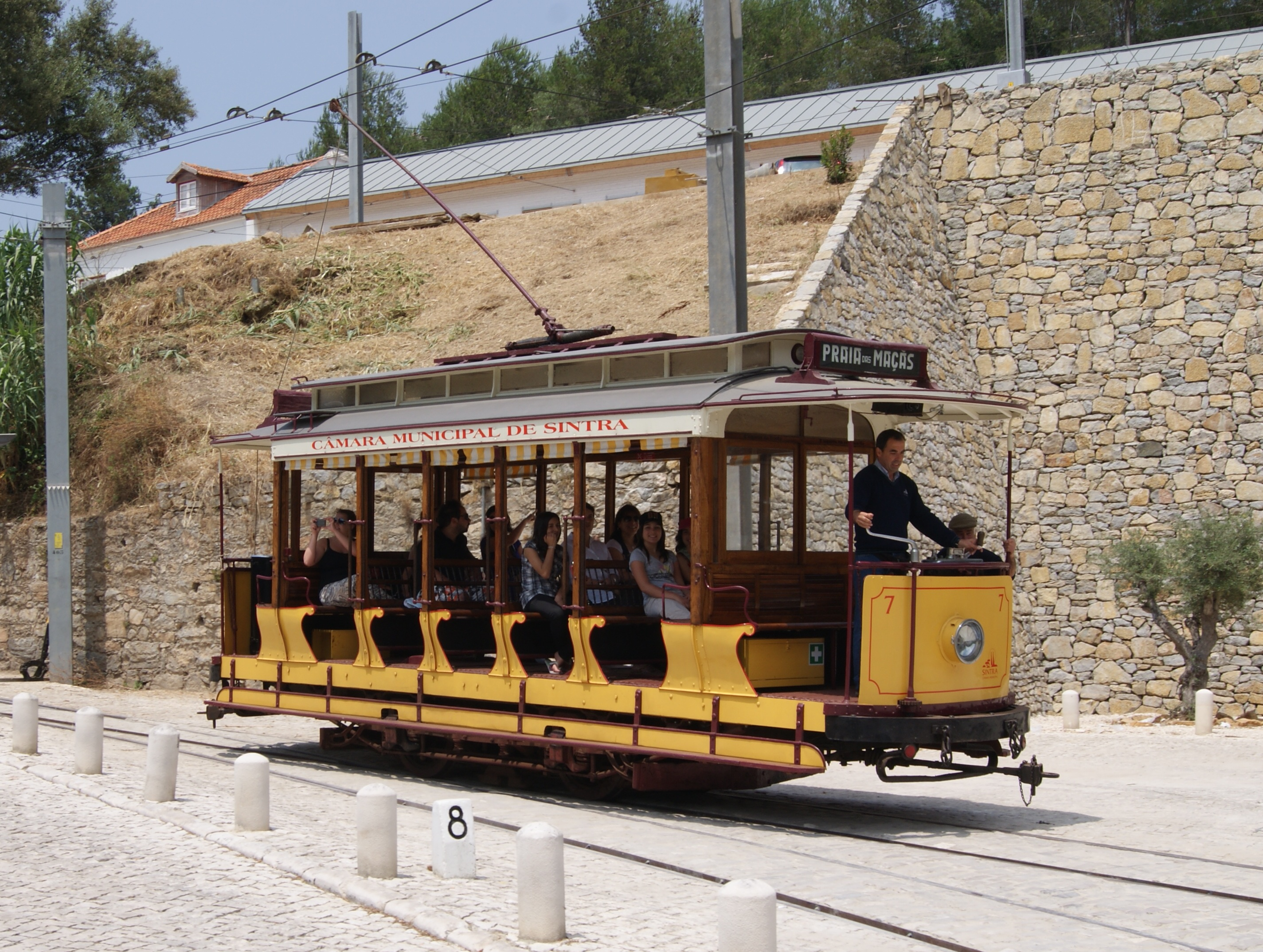 Sintra open tram 7 leaving Av. Nunes de Carvalho, bound for Praia das Maçãs. The location is next to the depot (carhouse), the metal roof of which is visible in the background. Car 7 was built in 1903 by the J. G. Brill Company, in kit form, and assembled in Sintra.